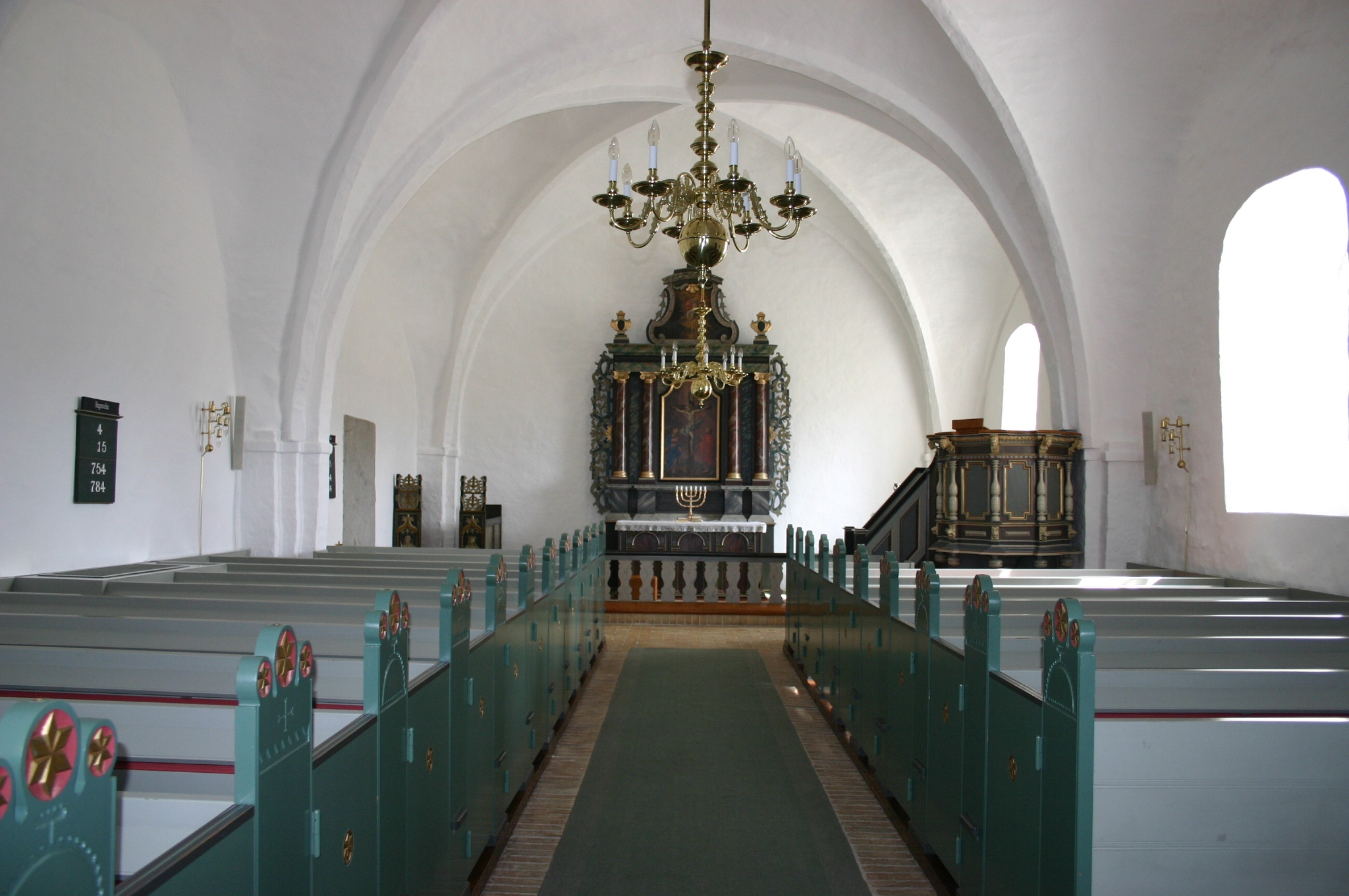 The inner of Karup Church, Mid Jutland, Denmark. Karup Kirkes indre, Viborg Kommune